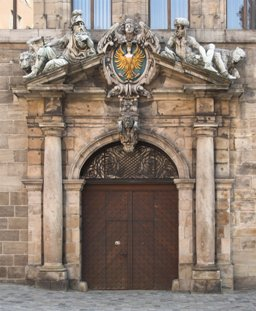 Monument to the Four Kingdoms of Daniel: two each.